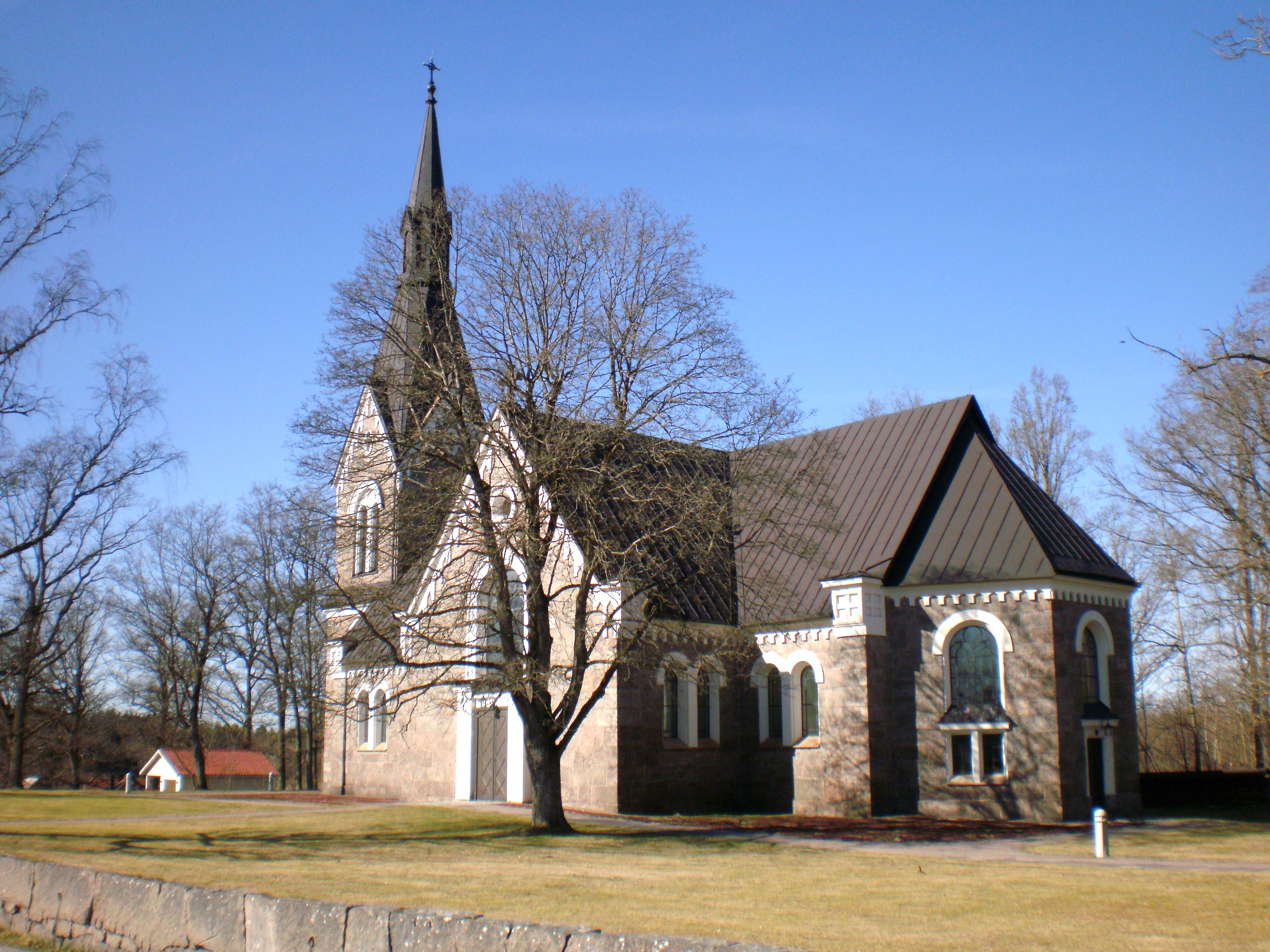 Sankt Sigfrids Church. The Church is built in granite in a mixture of Romanesque and Gothic Revival architecture new. It was inaugurated in 1888 by Bishop Pehr Sjöbring.